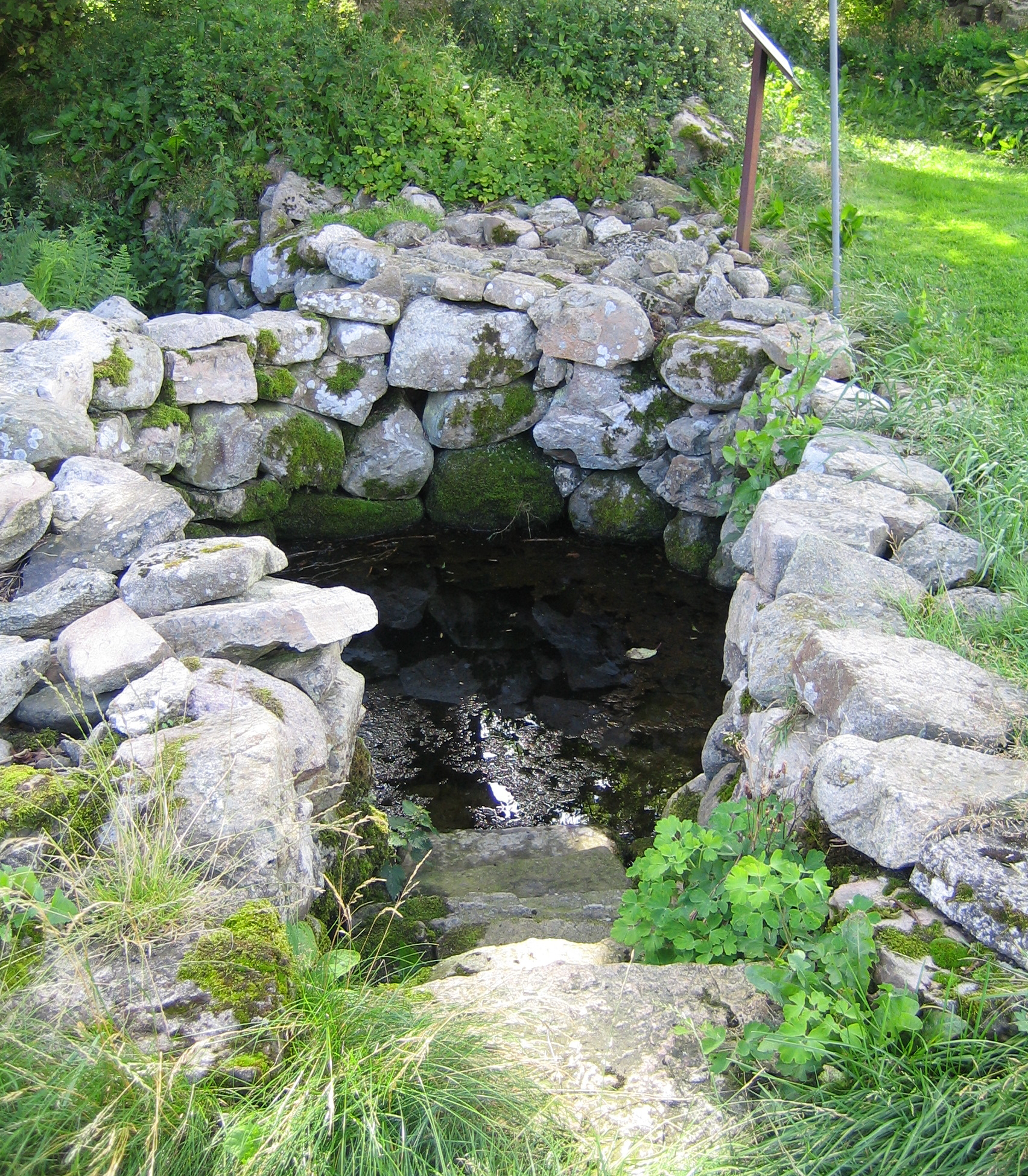 Sankt Olof sacred spring.